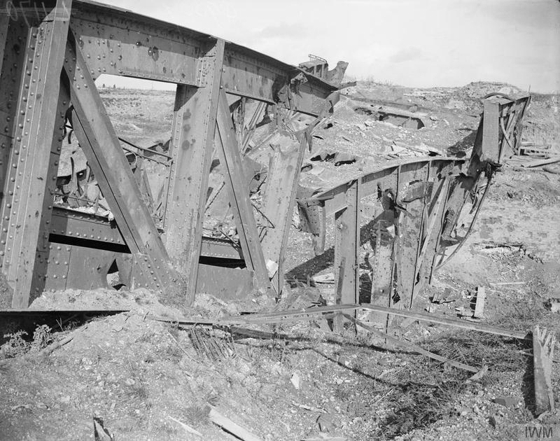 The Hundred Days Offensive, August-november 1918 Battle of the Canal du Nord. A bridge over the Canal destroyed by the Germans, near Moeuvres, 28th September 1918. (See also Q 9347).